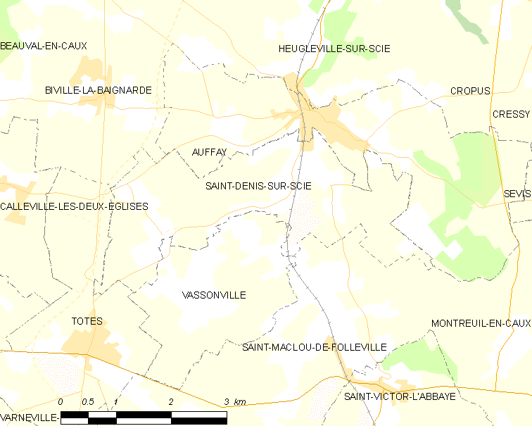 Map of French municipality Saint-Denis-sur-Scie